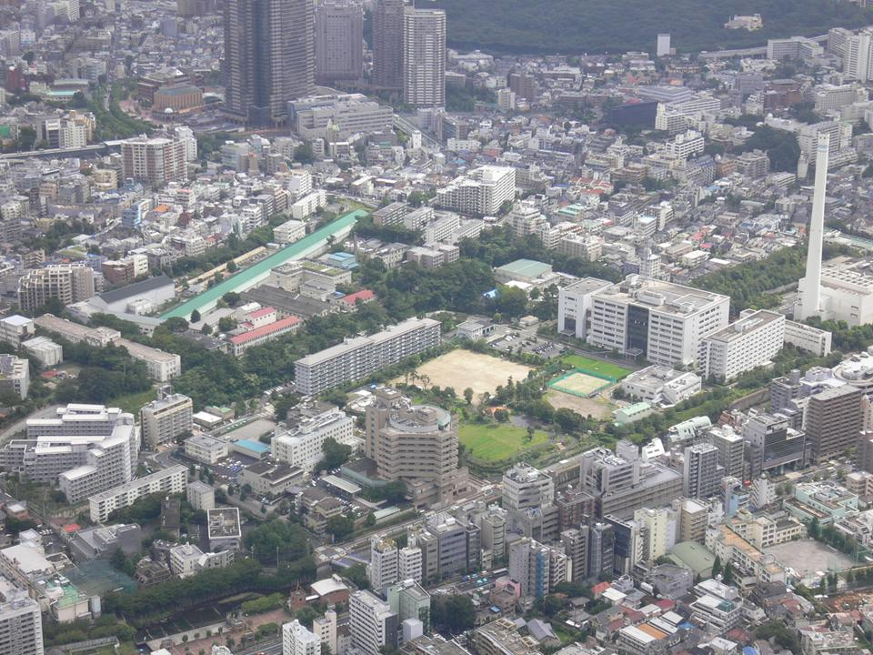 JMOD Meguro Area